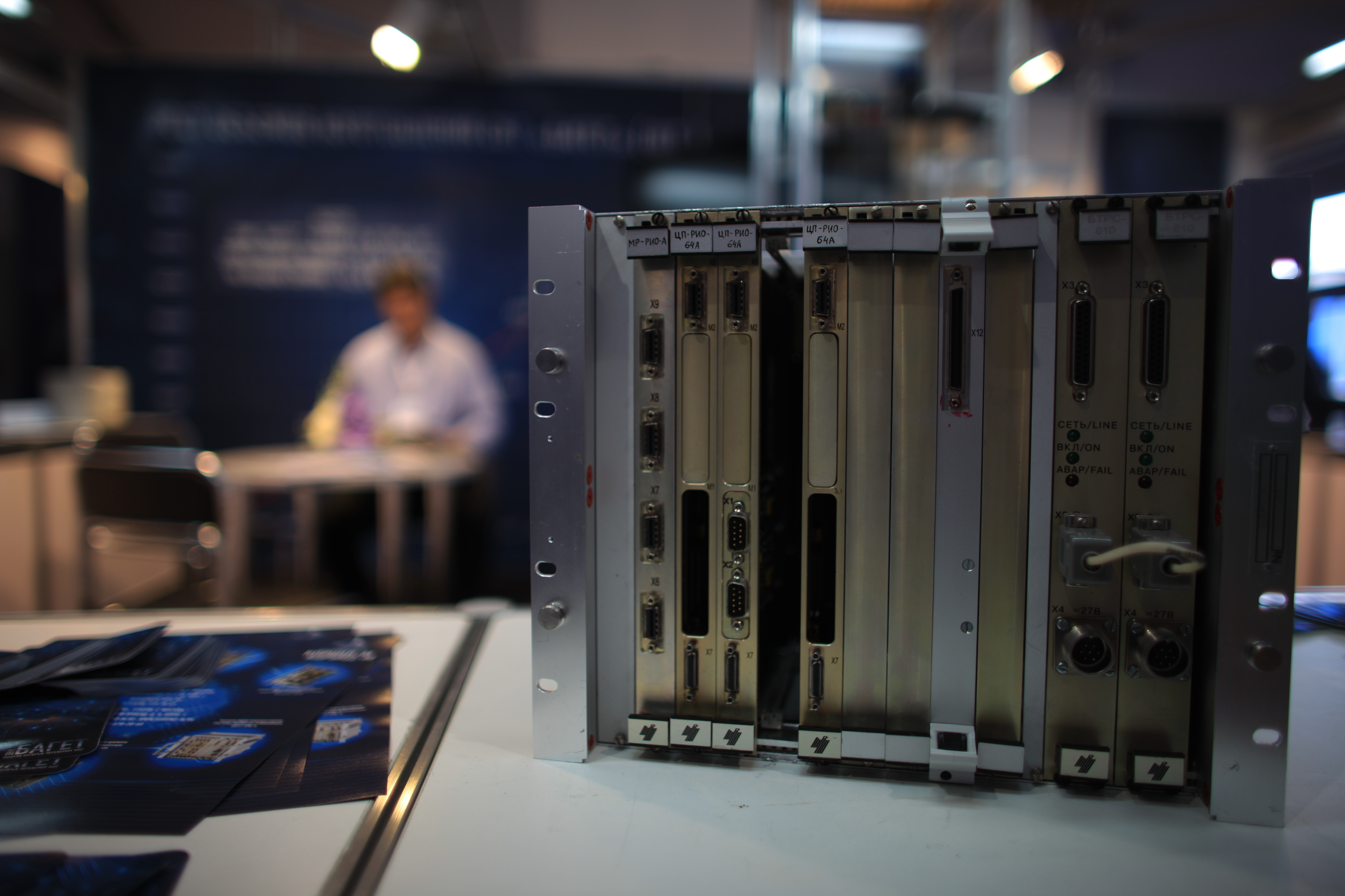 MR-RIO-A special purpose computer developed by KB Korund-M at 2013 MAKS Airshow